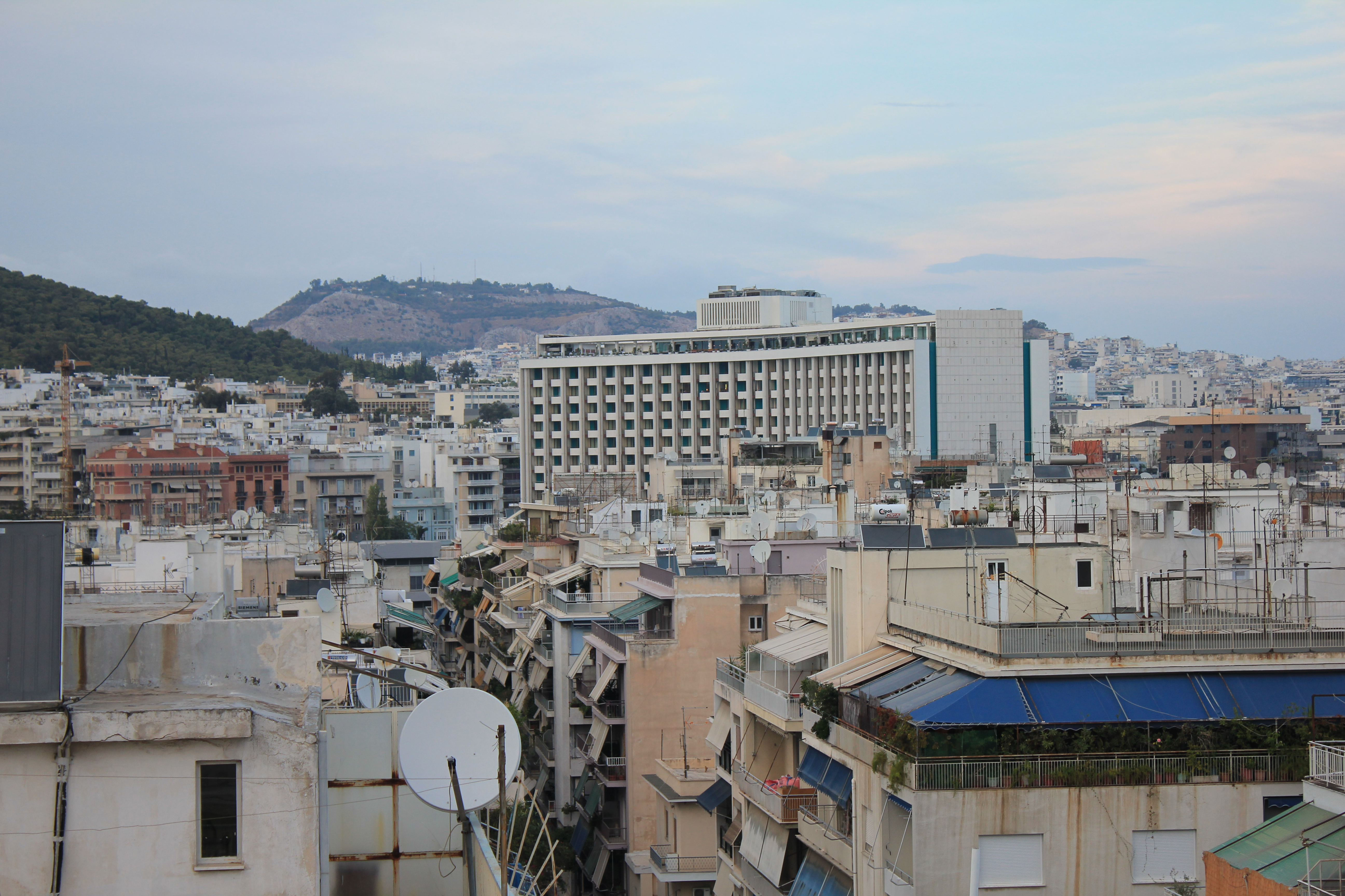 The Athens Hilton as seen from the neighbourhood of Pagrati.